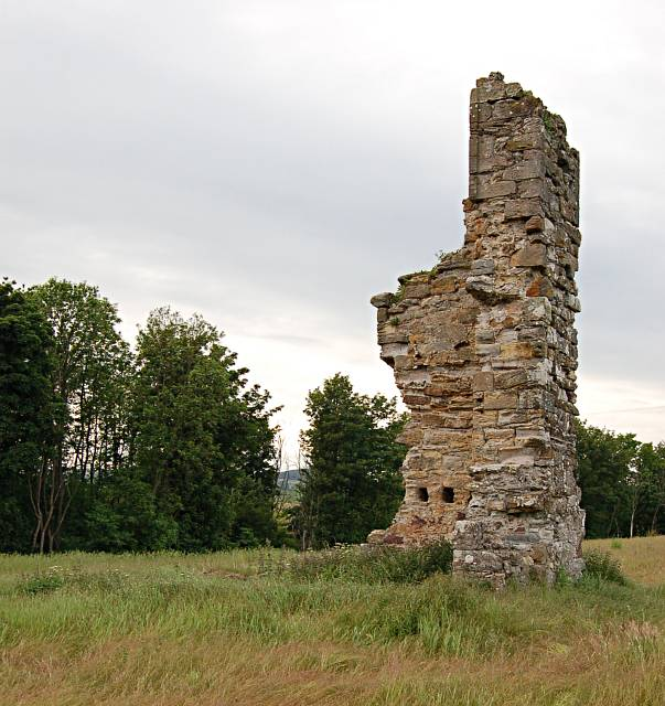 Aithernie Castle. Aithernie Castle near Leven. Not much of it left now.